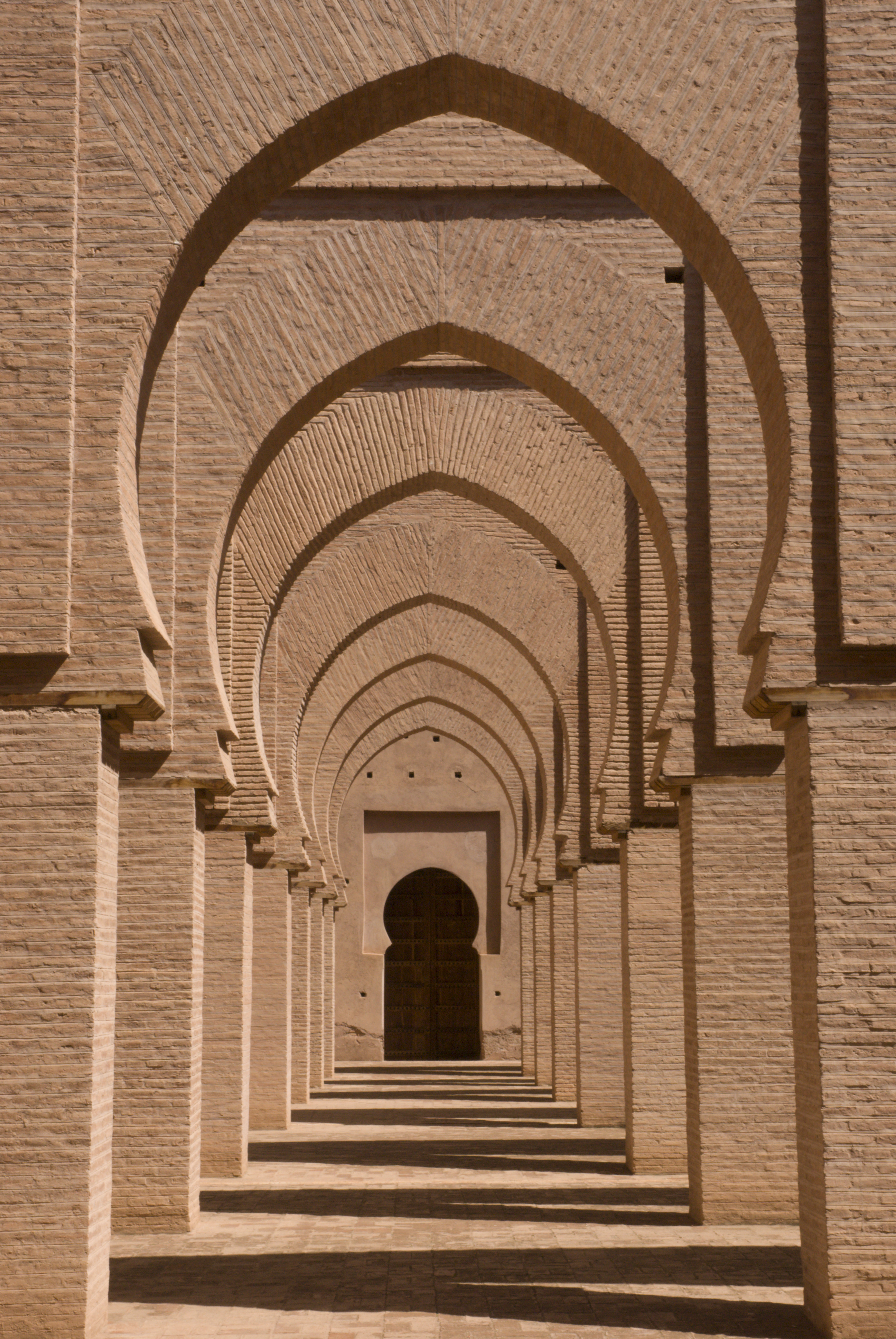 Tin Mal Mosque, High Atlas, Maroc